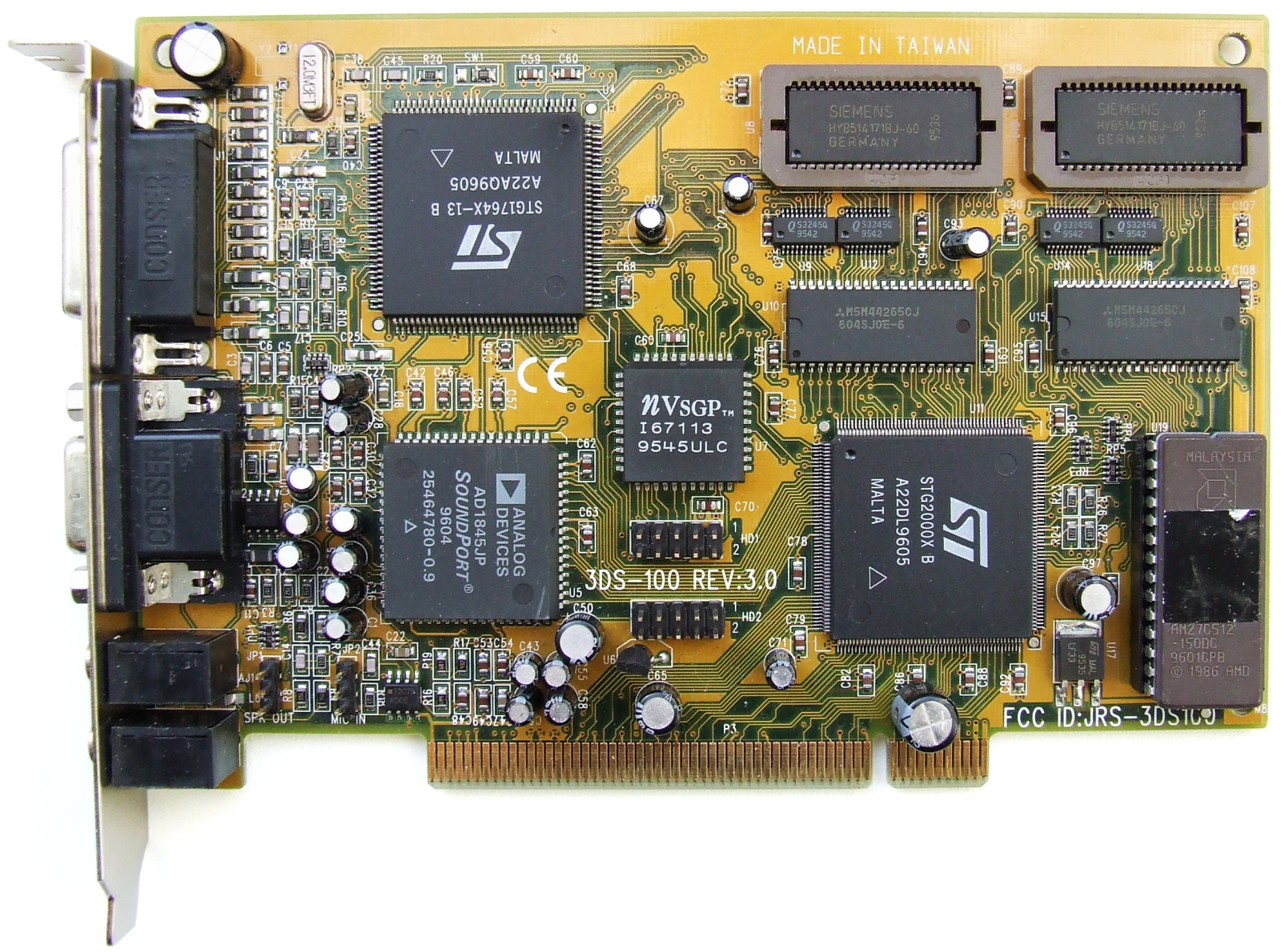 Yuan 3DS-100 (1+1 MB) video card based on the SGS-Thomson STG2000 graphics processing unit, which is the DRAM version of Nvidia's NV1. Audio and gamepad (via slot bracket) ports are also provided.